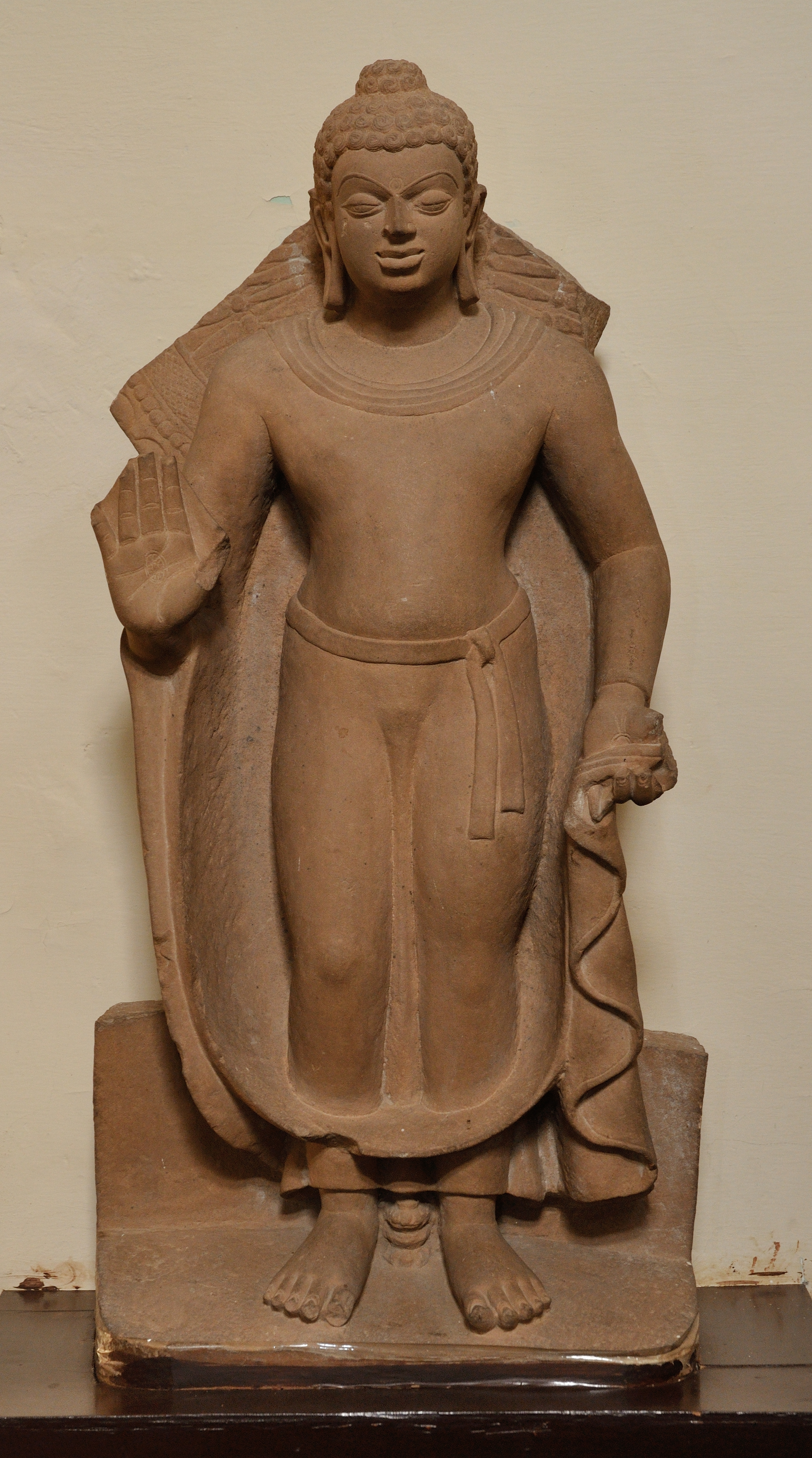 This artefact resides at the Government Museum, (hi: Rashtriya Sangrahalaya) formerly The Curzon Museum of Archaeology, Museum Road or Murari Lal Rajpal road, Dampier Nagar, Mathura, Uttar Pradesh, India. This museum is administrating by the State Government of Uttar Pradesh of India.